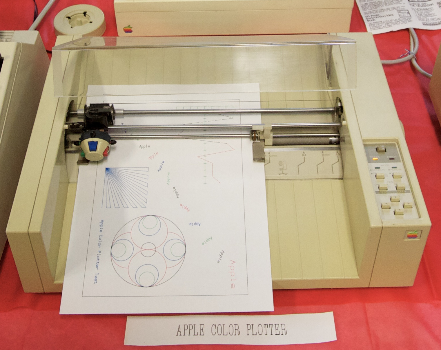 Apple Color Plotter, cropped from source image to isolate this printer.